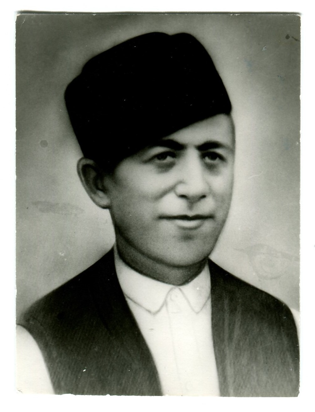 Janko Jolovic